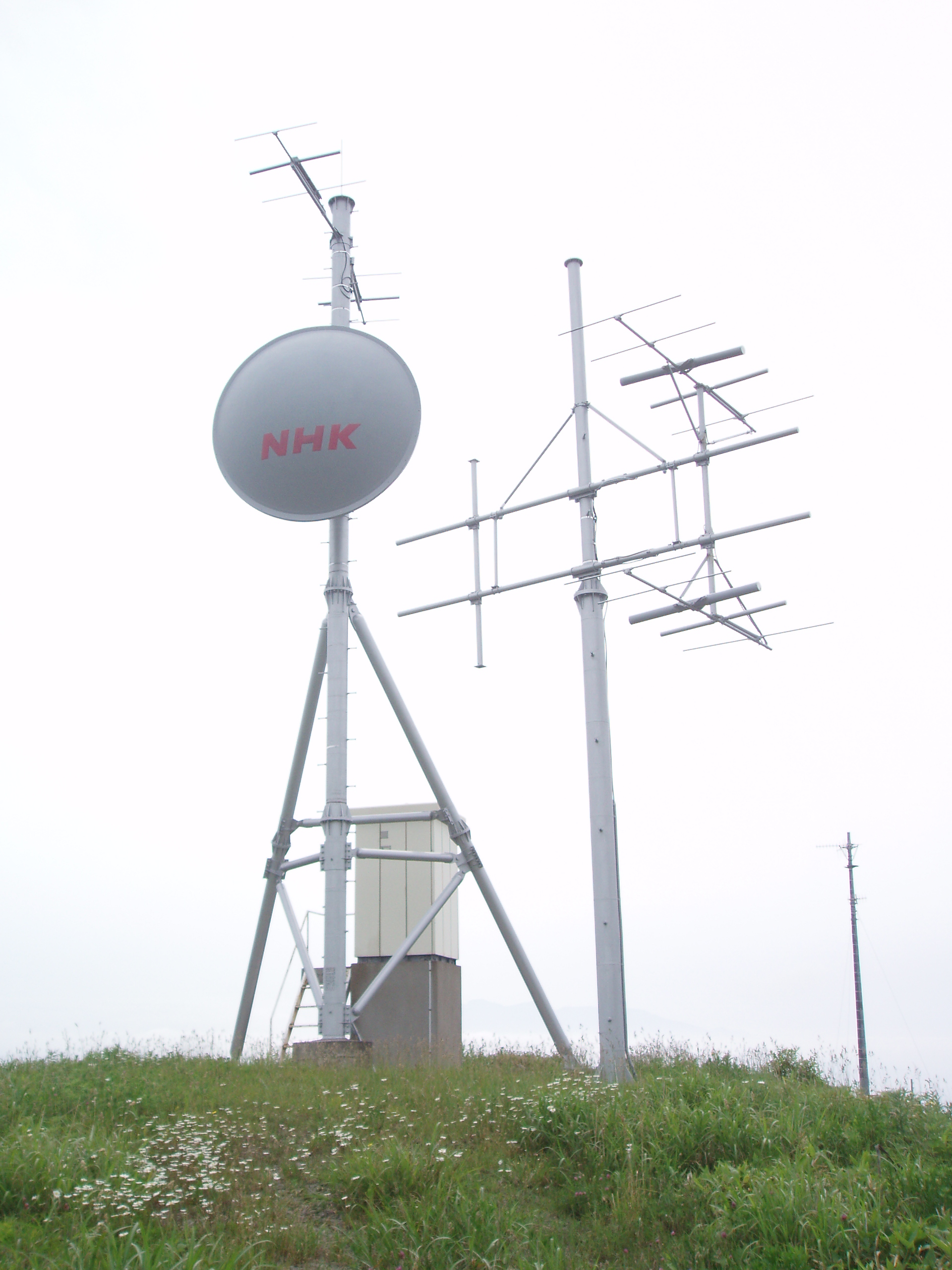 NHK transmitter at the Shimamaki Broadcasting Relay Station